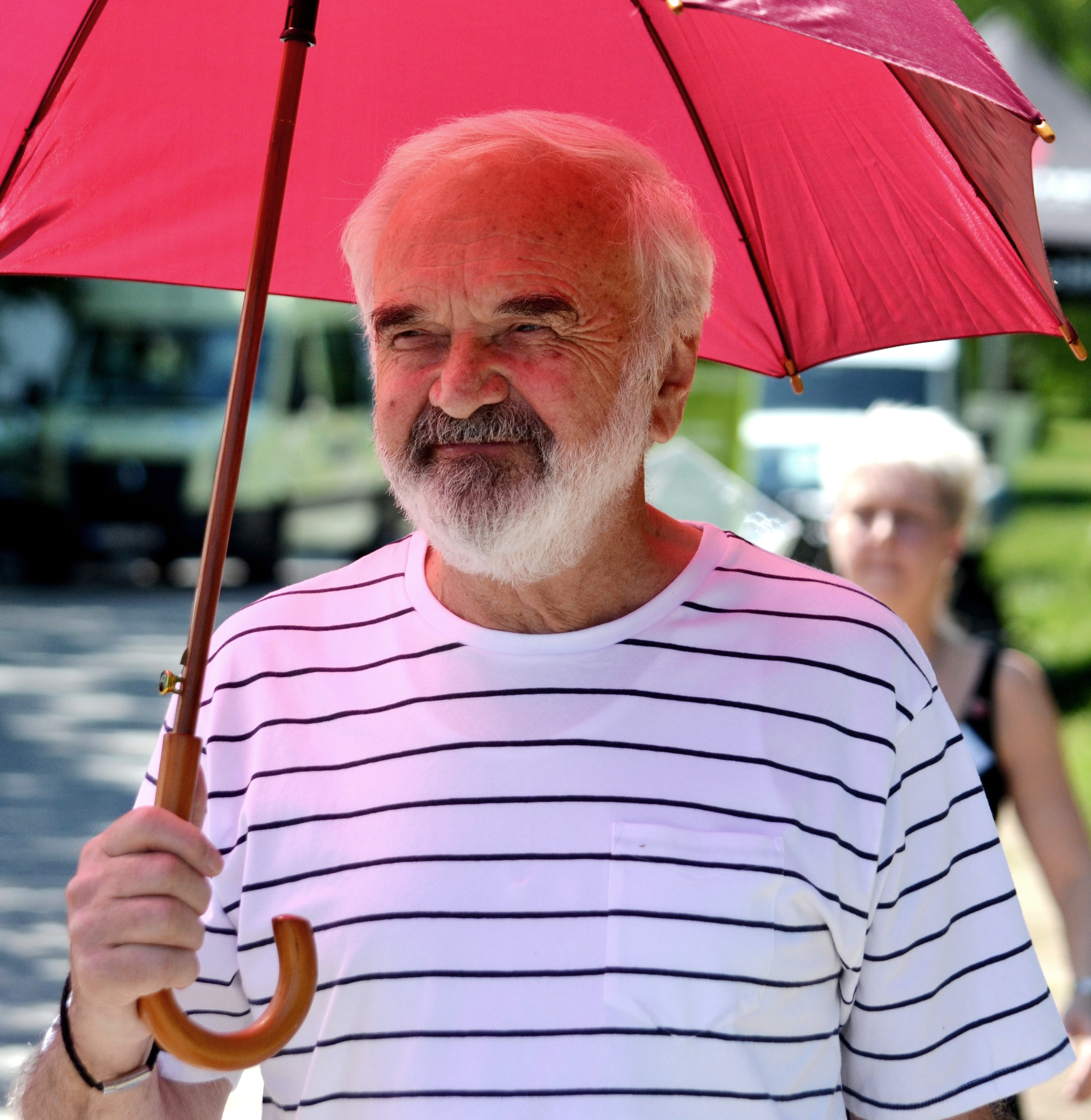 Zdeněk Svěrák, Czech actor